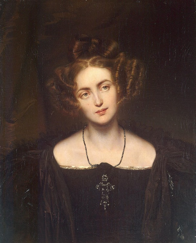 Henriette Sontag (1806-1854), German coloratura soprano, depicted here in the costume of Donna Anna from Mozart's opera Don Giovanni